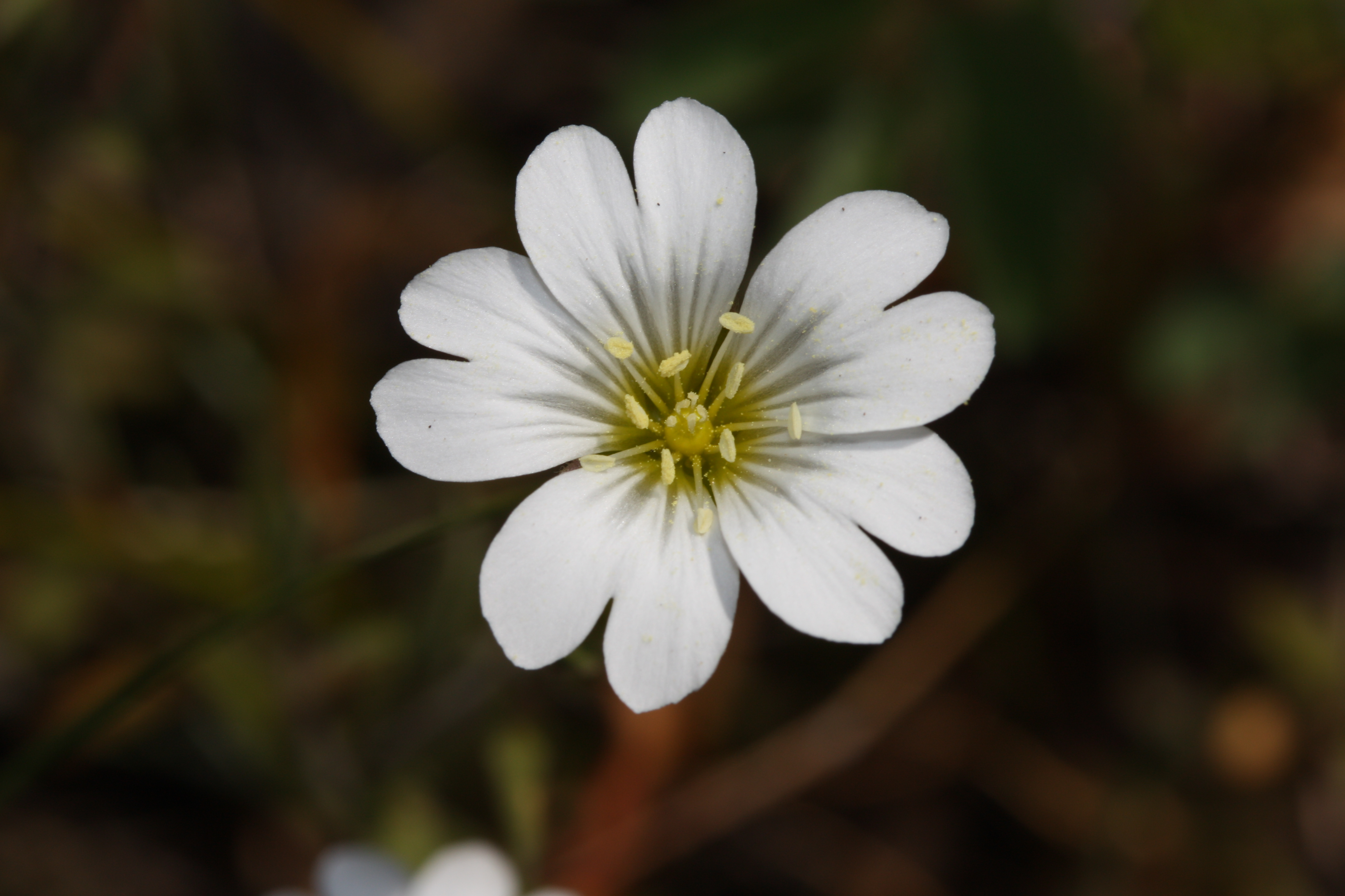 Field Chickweed (Cerastium arvense) flower, in Washington state, USA.